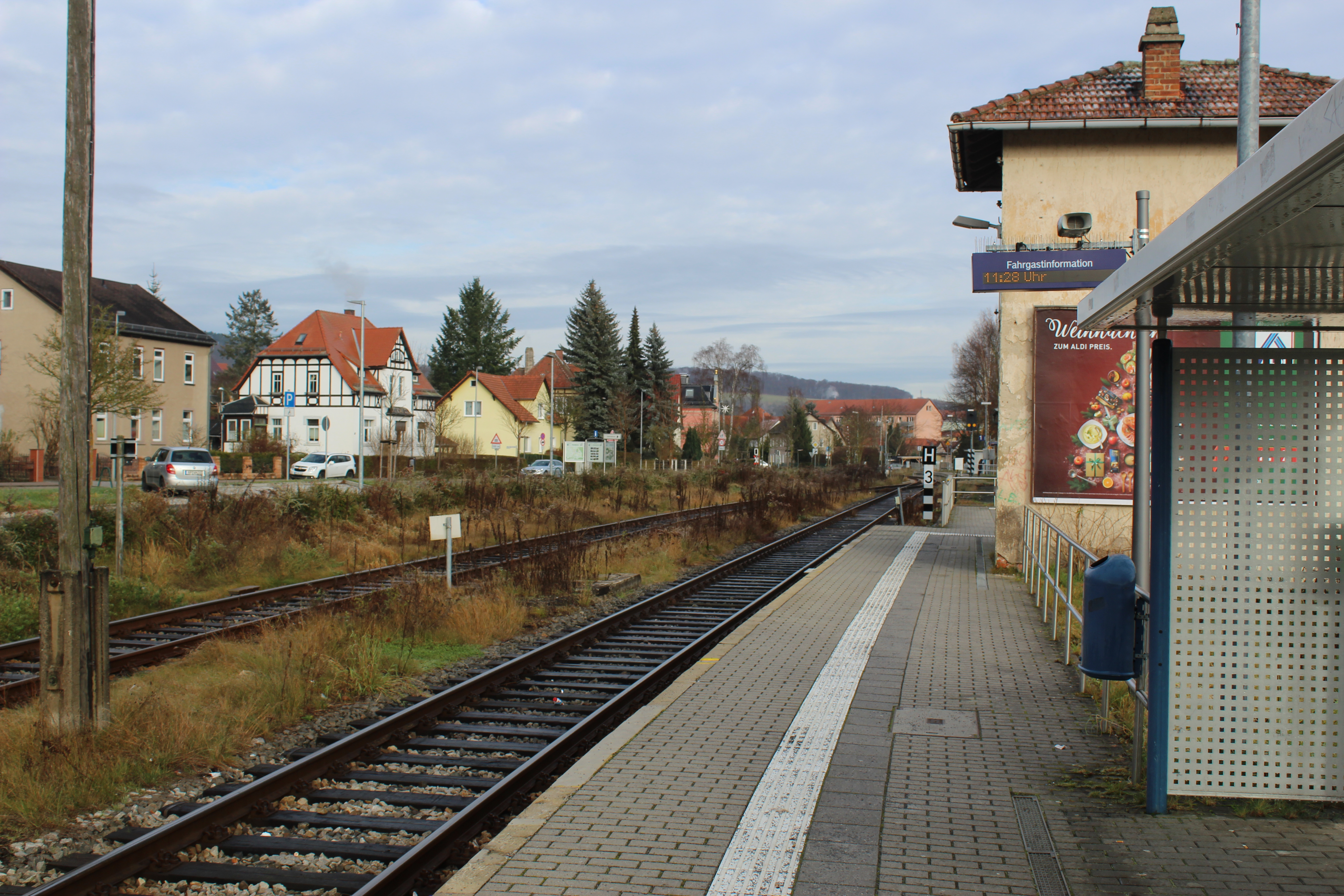 train station Bad Berka, platform in direction to Weimar